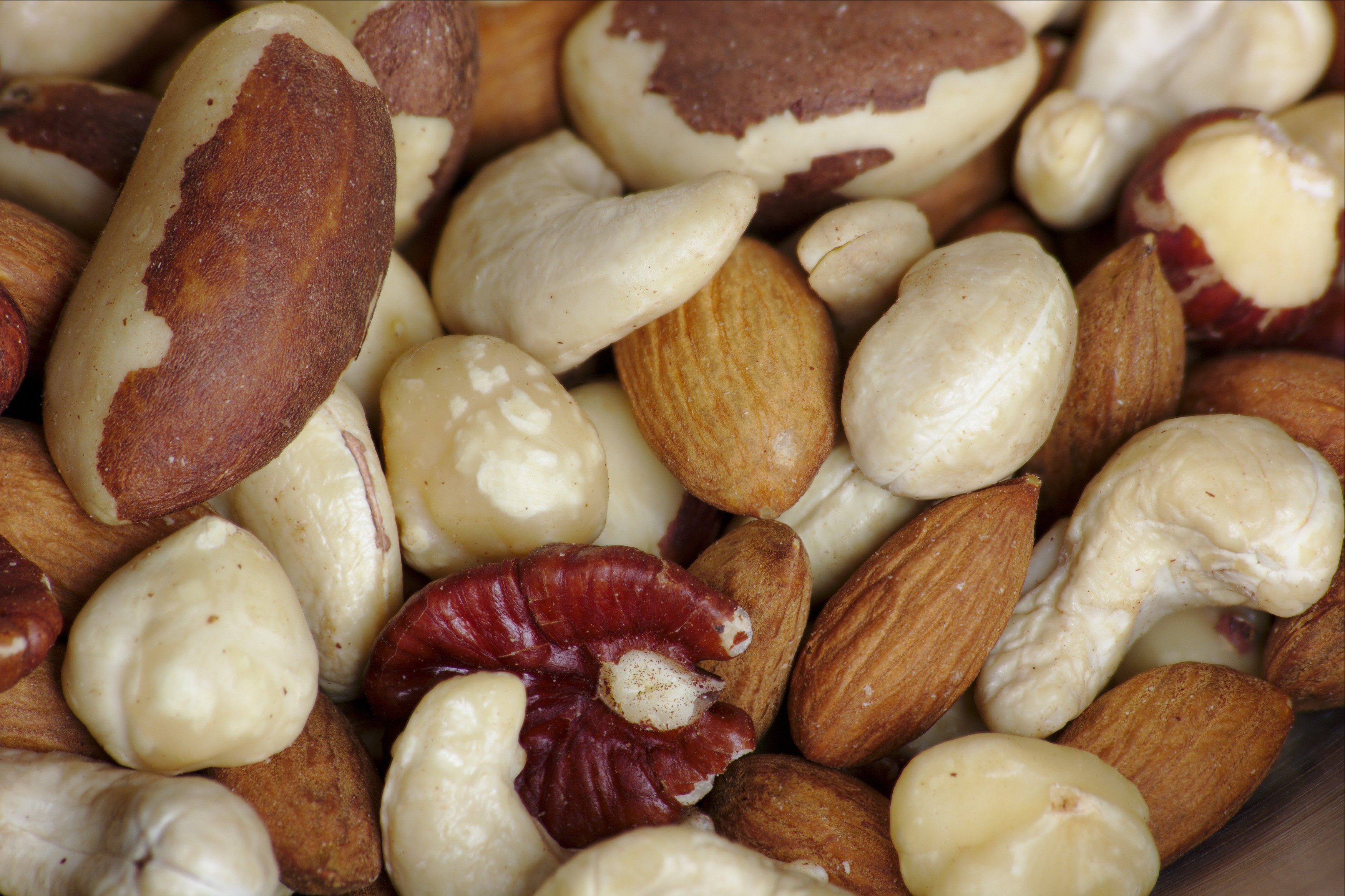 A closeup of a fancy raw mixed nuts mixture from Trader Joe's, including cashews, almonds, filberts, Brazil nuts, and pecans. This is a composite image created from two photographs, combined with focus stacking using the Enfuse function of Hugin.